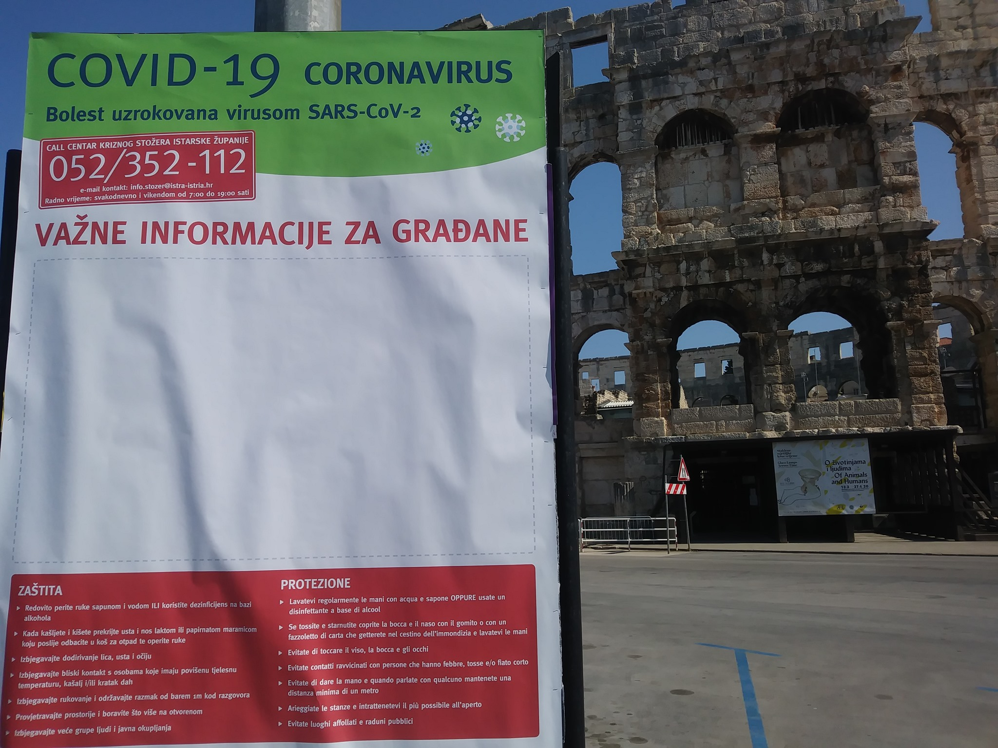 COVID-19 announcement in Pula Pola Croatia